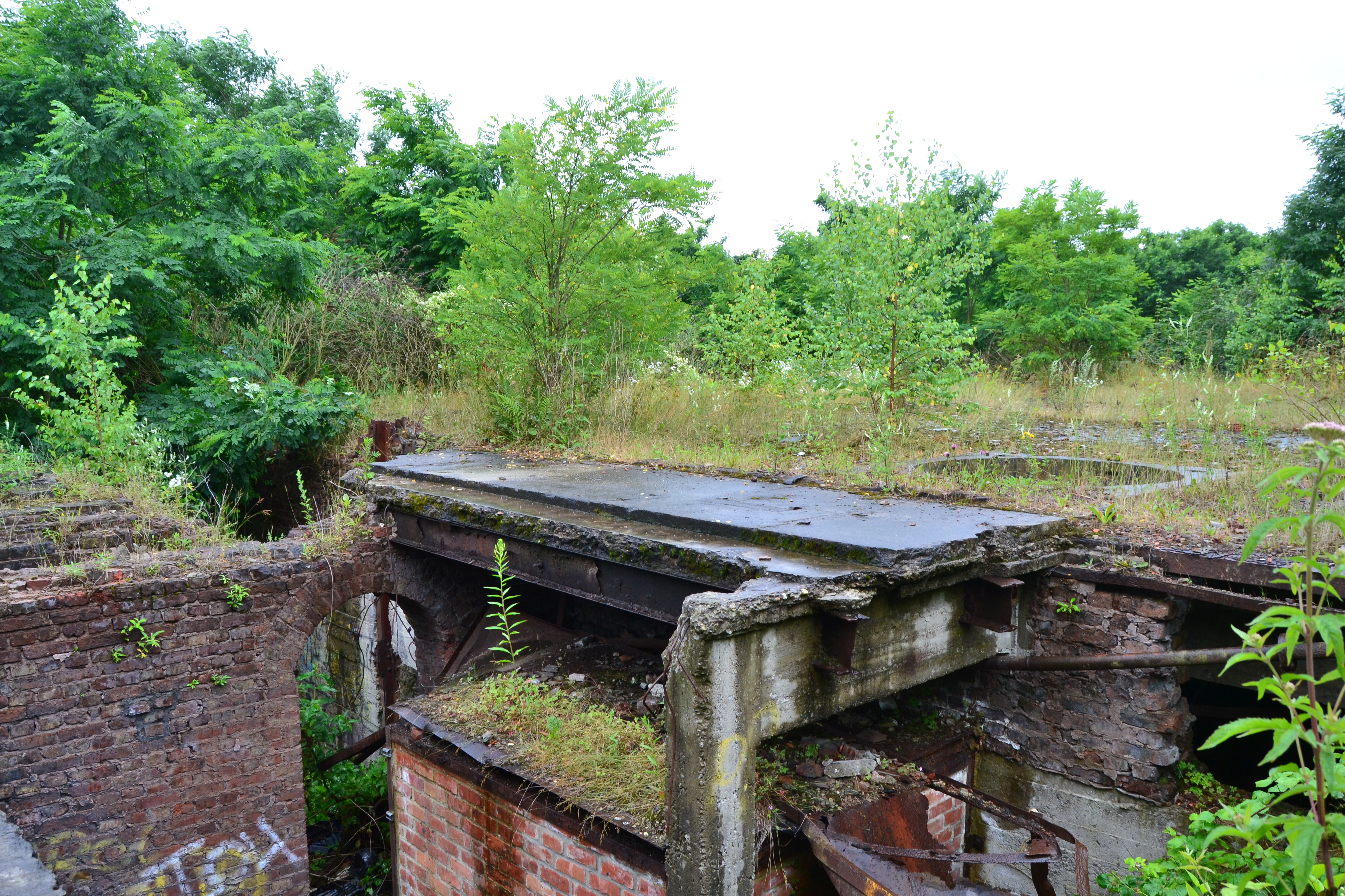 Ancient pit of the Sainte-Nicolas coal mine in Saint-Nicolas, Liège, Belgium